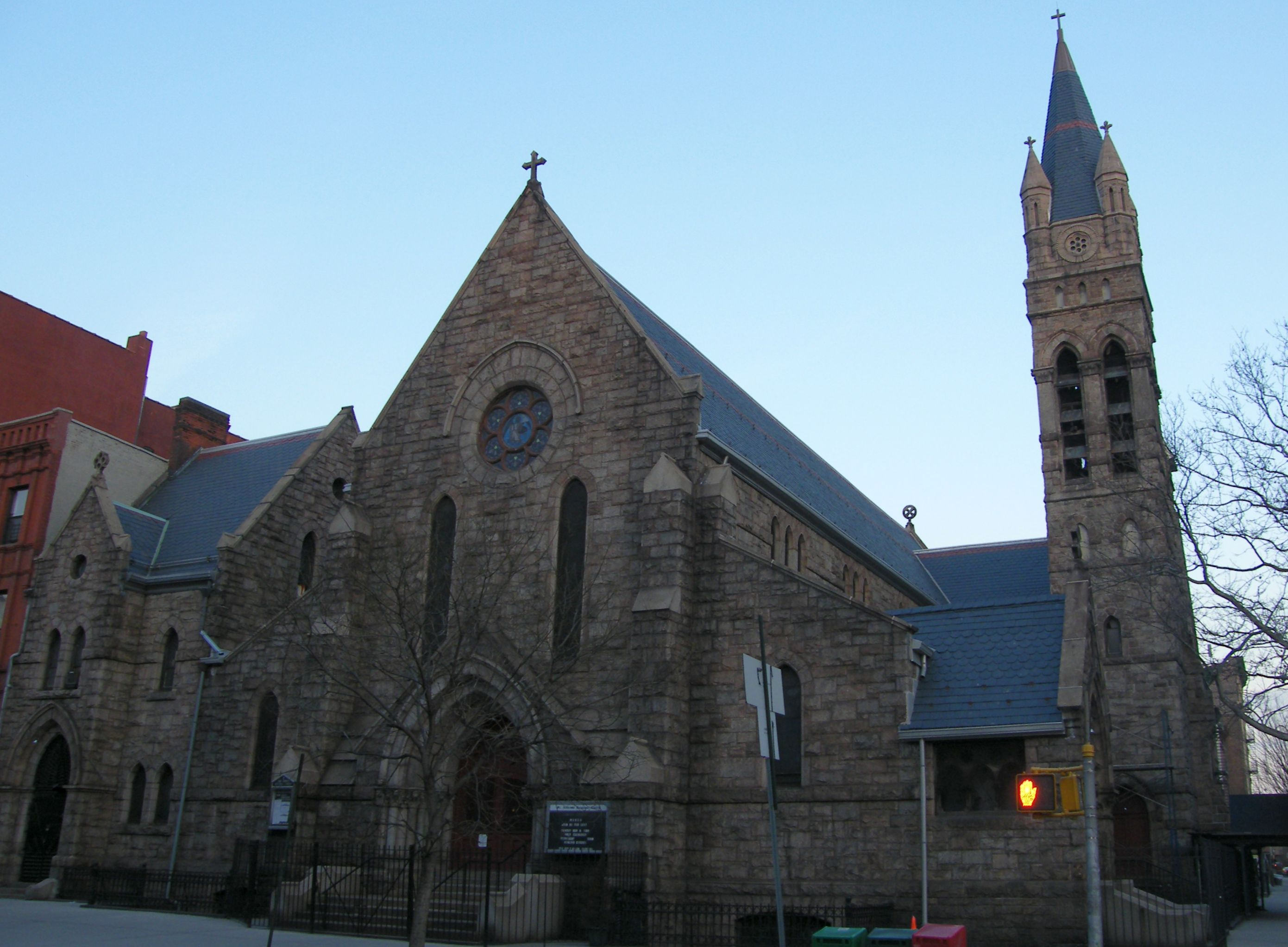 St. Andrews Episcopal Church 2067 Fifth Avenue on National Register of Historic Places in New York City. NYCLPC designation 1967; Guidebook map 18.